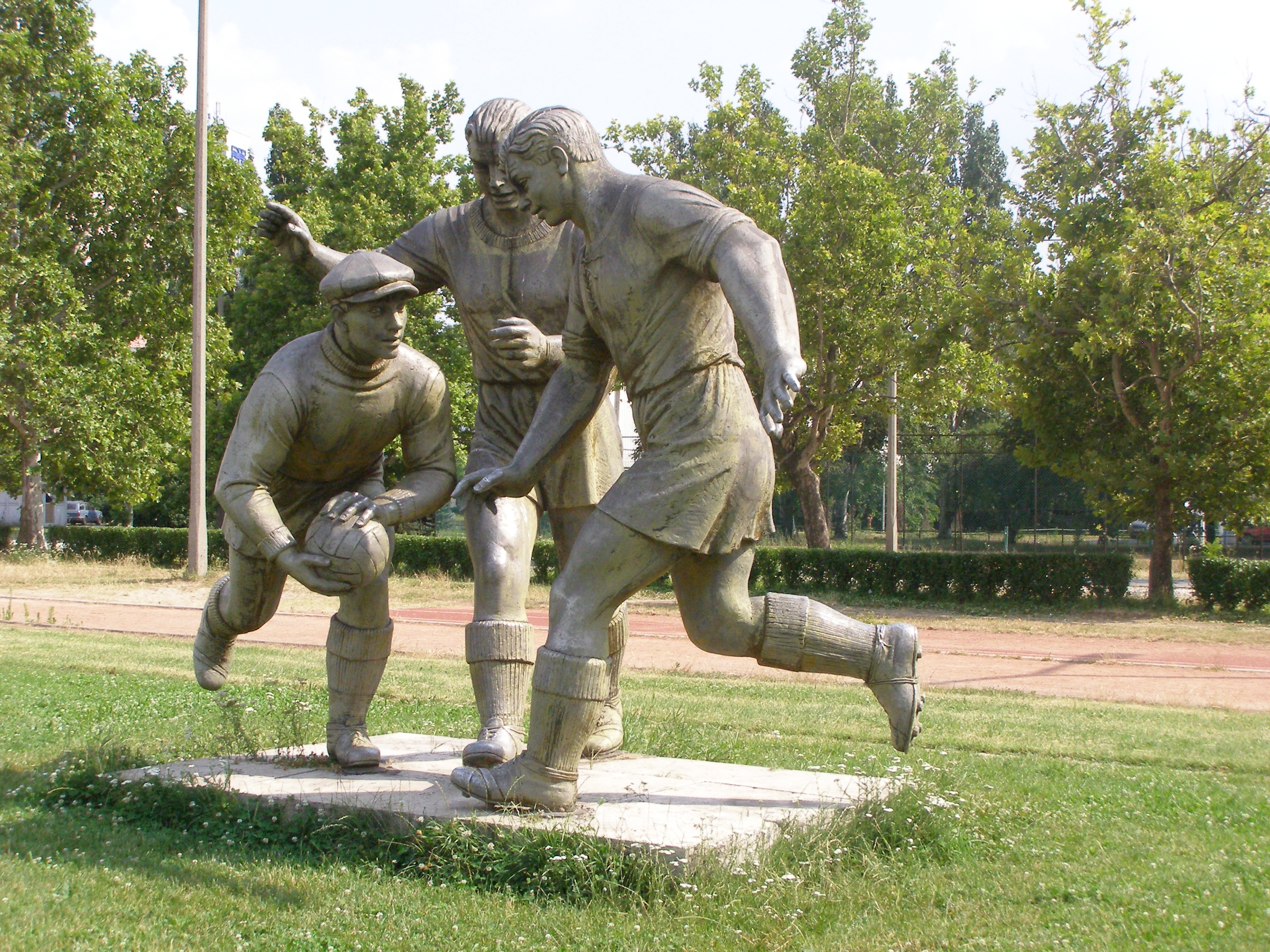 Budapest - sculptures near the Ferenc Puskas stadium